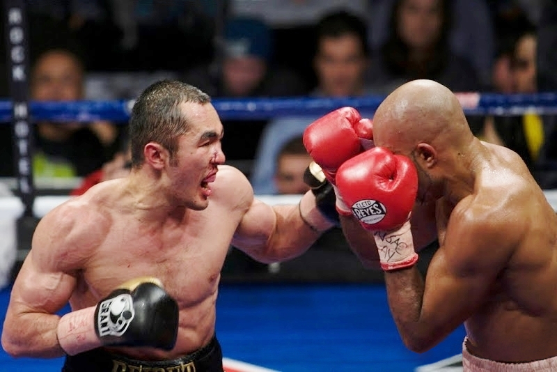 Beibut Shumenov (on the left) vs. Gabriel Campillo at the Hard Rock Hotel and Casino on January 29, 2010.